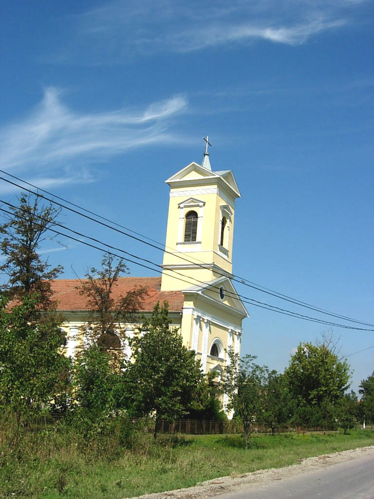 The Annunciation Catholic Church in Boka, Banat.